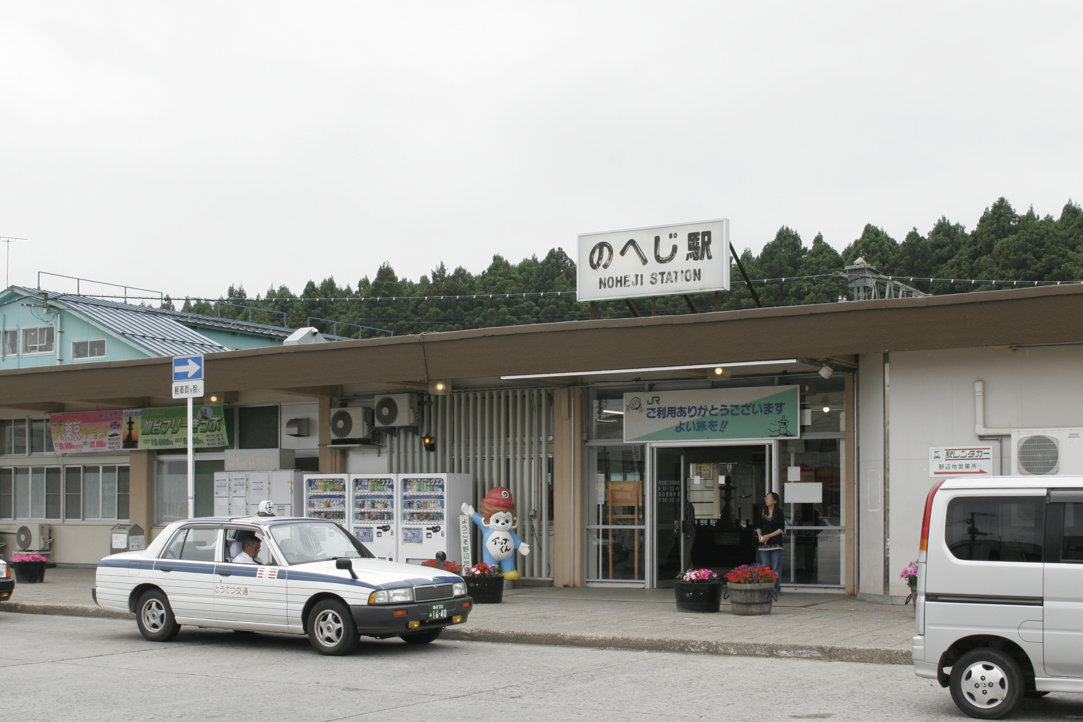 Noheji Station forecourt